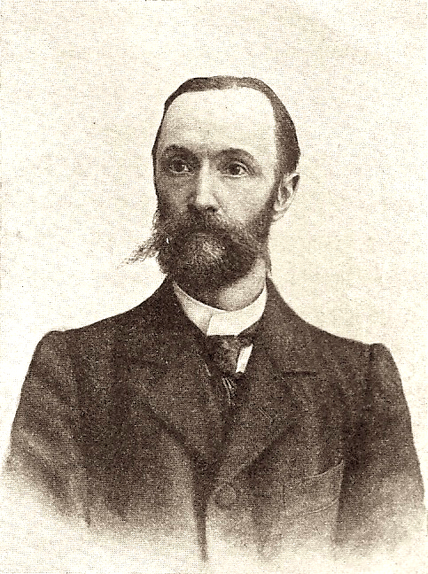 Vladimir Puchalski (1848–1933) — Russian and Ukrainian pianist, composer and educator